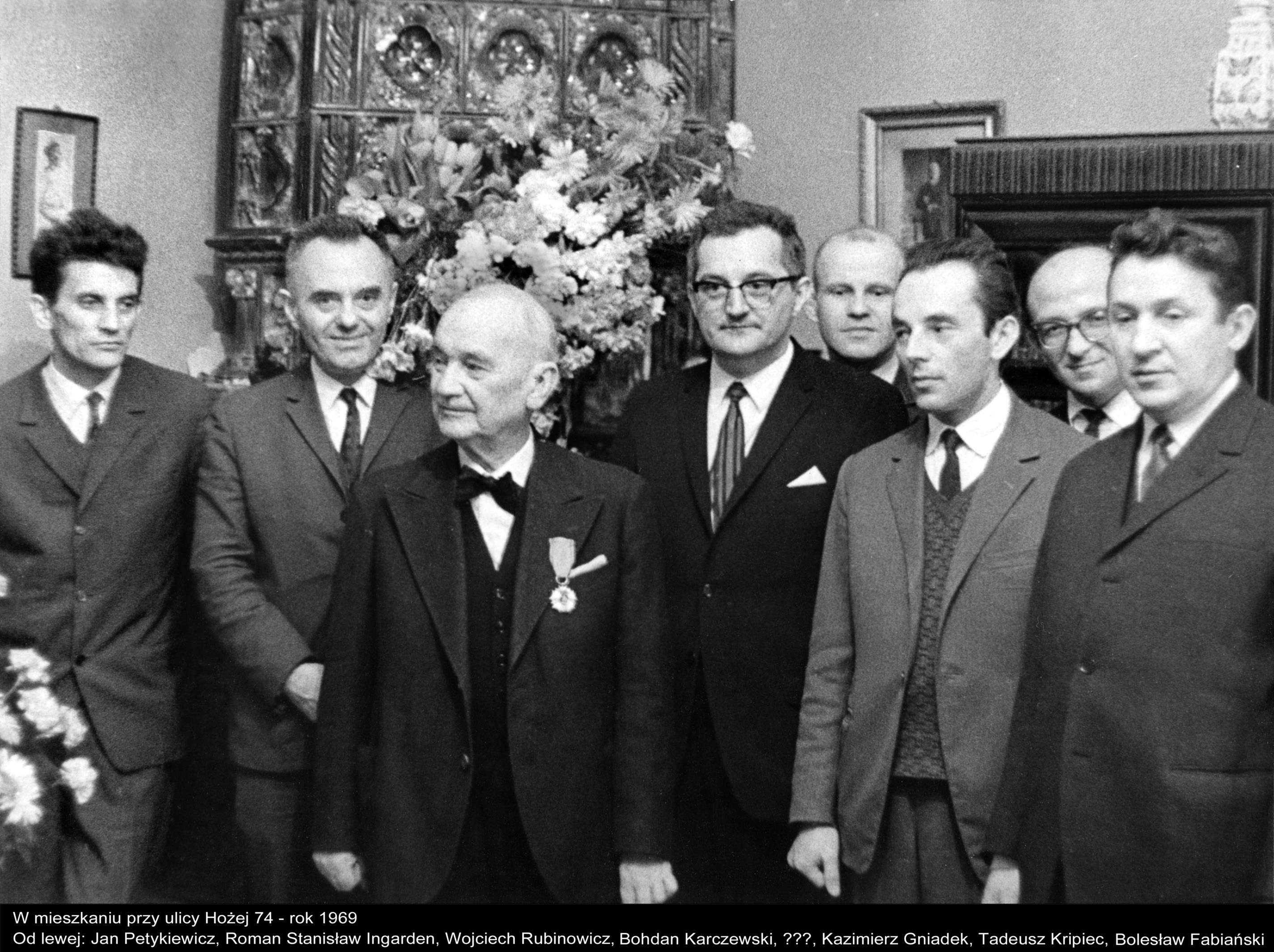 Professor Wojciech Rubinowicz in the midst of his former students